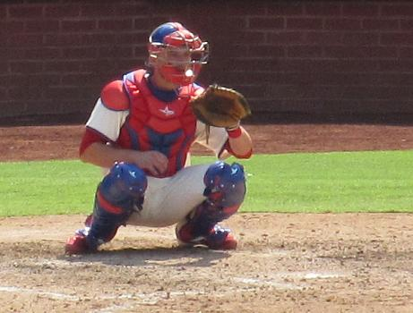 Steven Lerud in Philadelphia 2012 08 30. The game was his major league debut.